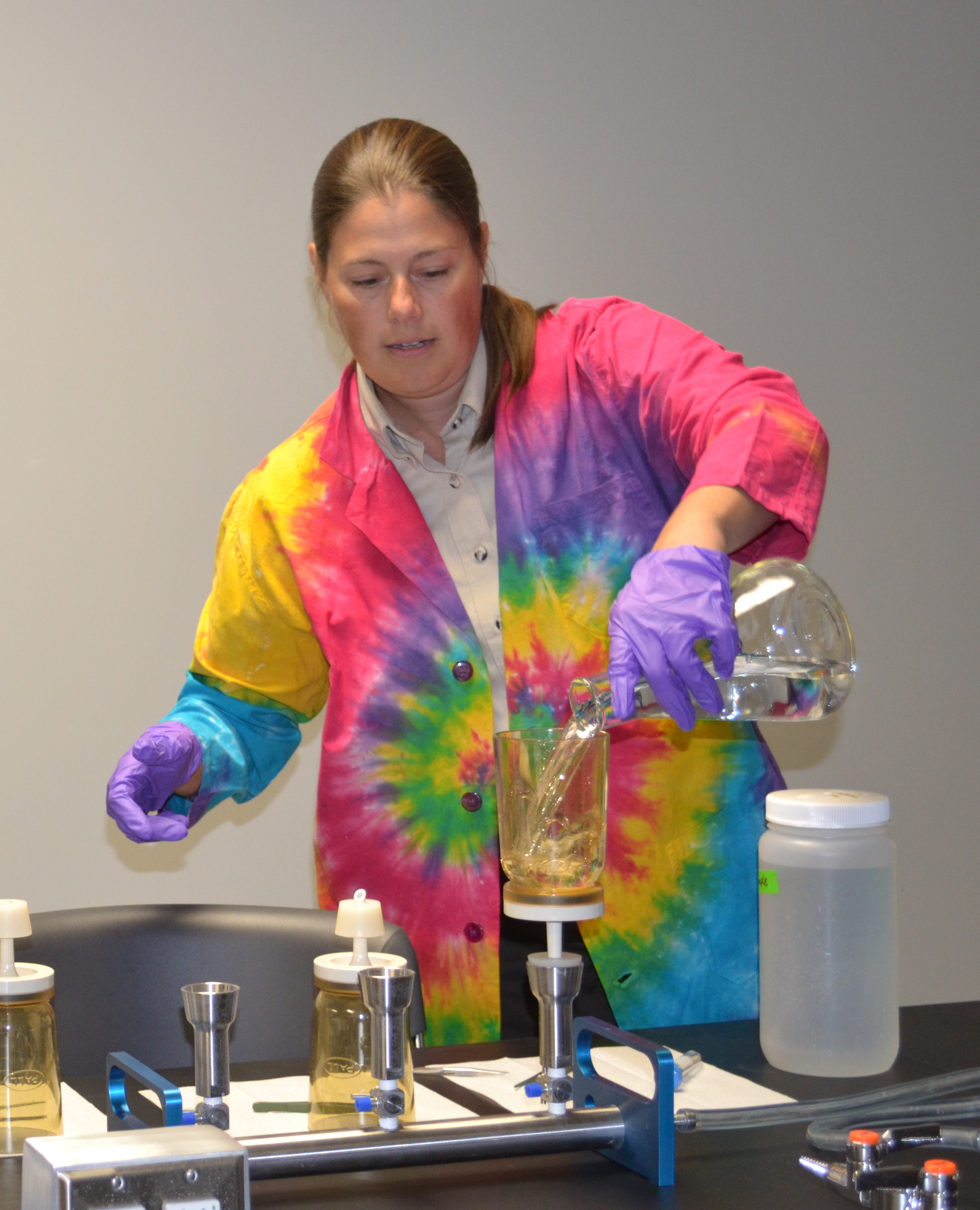 A tie-dyed (or similar process) lab coat being worn by geneticist Emy Monroe at a public demonstration. The process being shown is testing for Asian carp eDNA